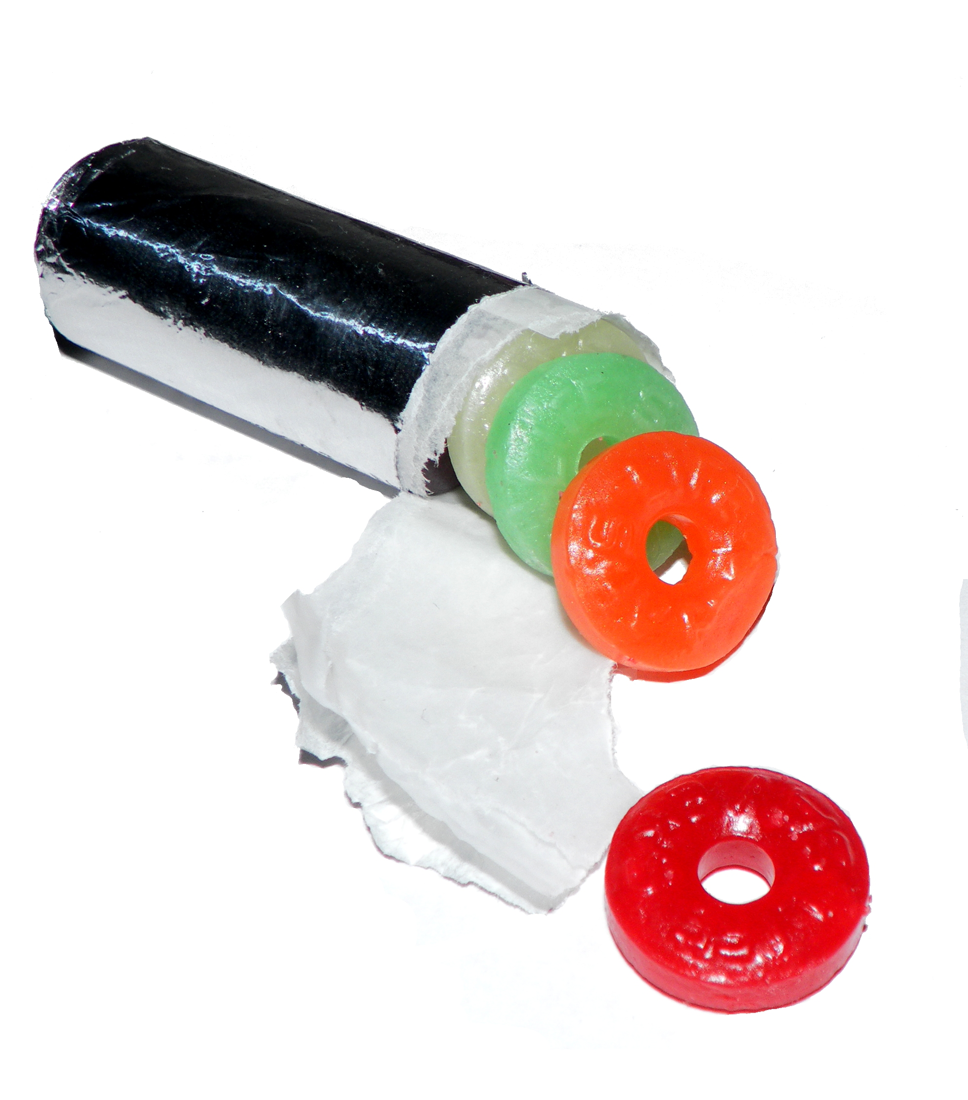 Life Savers fruit flavors hard candies in their iconic silver wrapper